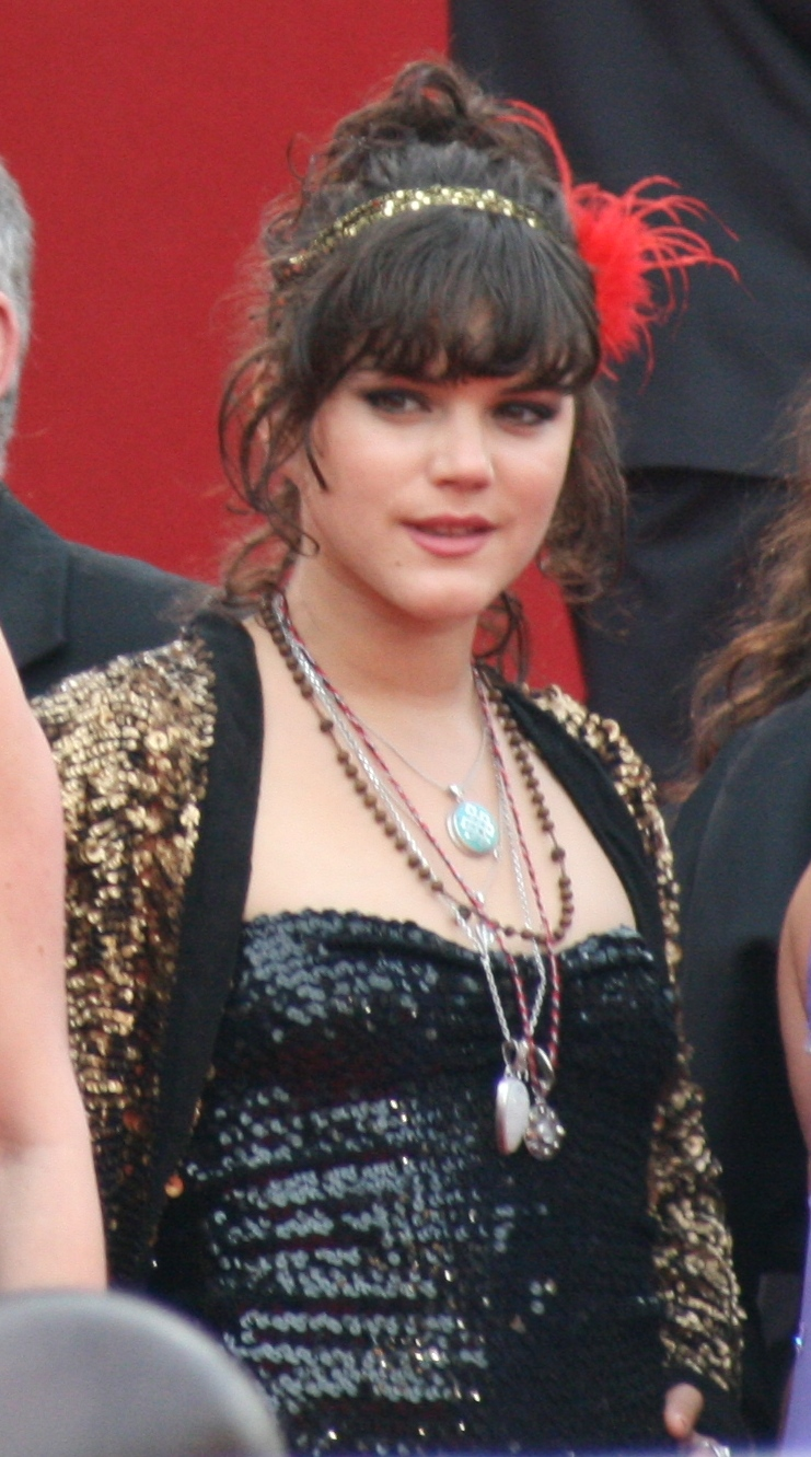 Stéphanie Sokolinski, at Cannes Film Festival 2009, for film À l'origine.